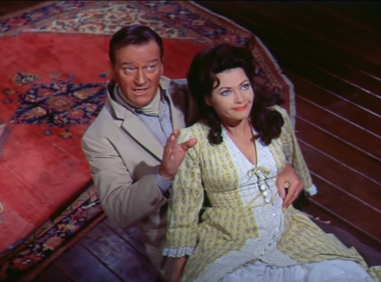 John Wayne and Yvonne De Carlo in McLintock! (1963) (cropped screenshot)